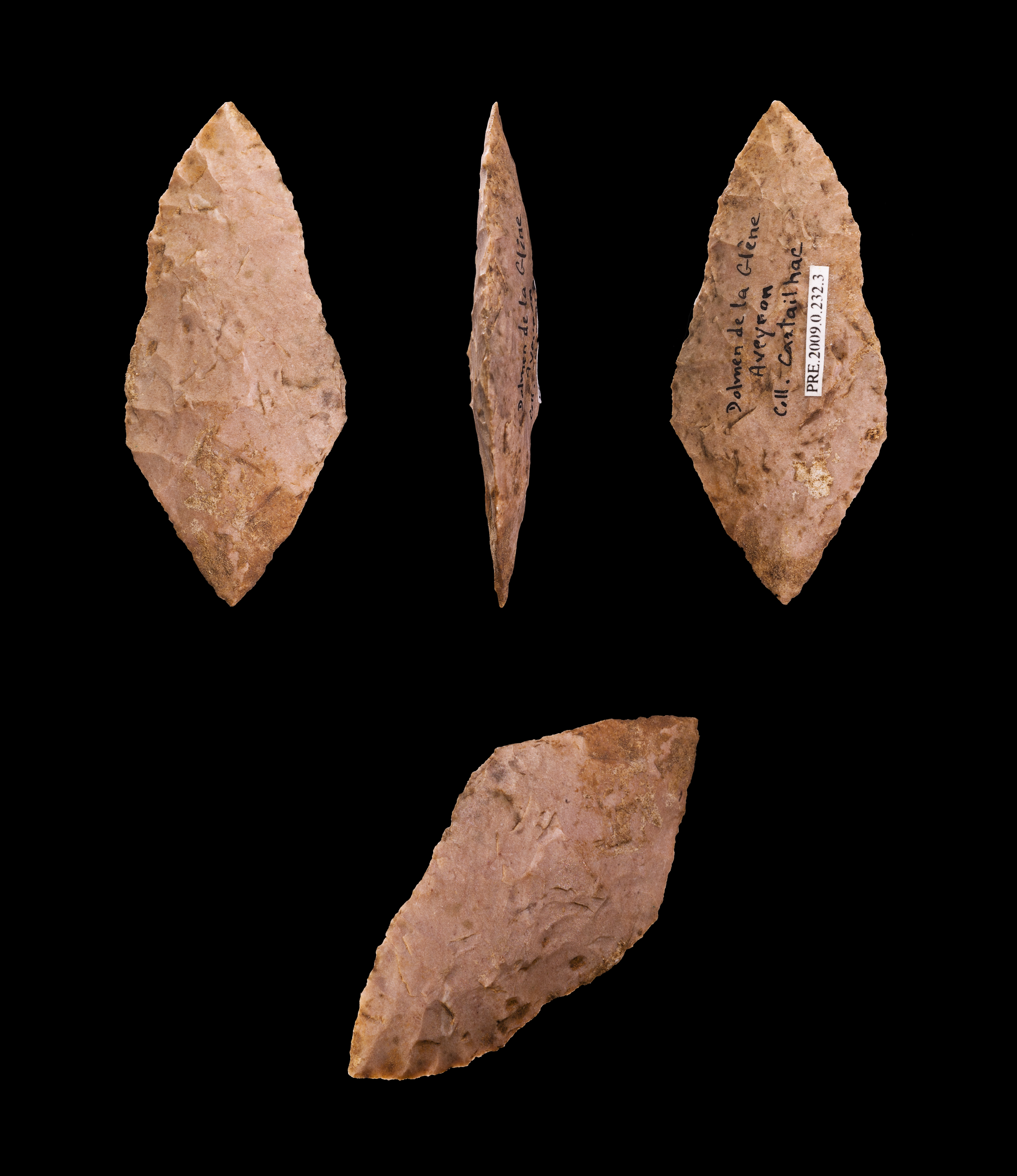 Arrowhead in Chert - Different views of the same specimen Stage : Later Neolithic (Rhodézien) (to – 3300 to - 2400 Before the Current Era) Locality : Dolmen de la Glène, Saint-Léons, Aveyron, France Former collection of Émile Cartailhac (1845 - 1921) Size : 5.5x2.5x0.7 cm